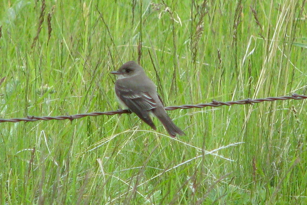 American Dusky Flycatcher